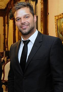 Cristina Fernández de Kirchner con Ricky Martin, Cropped.